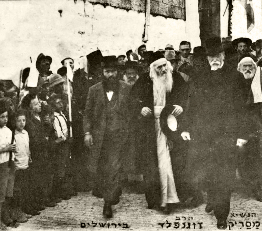 Real photo postcard type, in which Rabbi Yosef Chaim Sonnenfeld receives Tomáš Garrigue Masaryk, President of Czechoslovakia, during the latter's visit to Jerusalem in 1927. Silver print, black and white, 9 X 14 cm